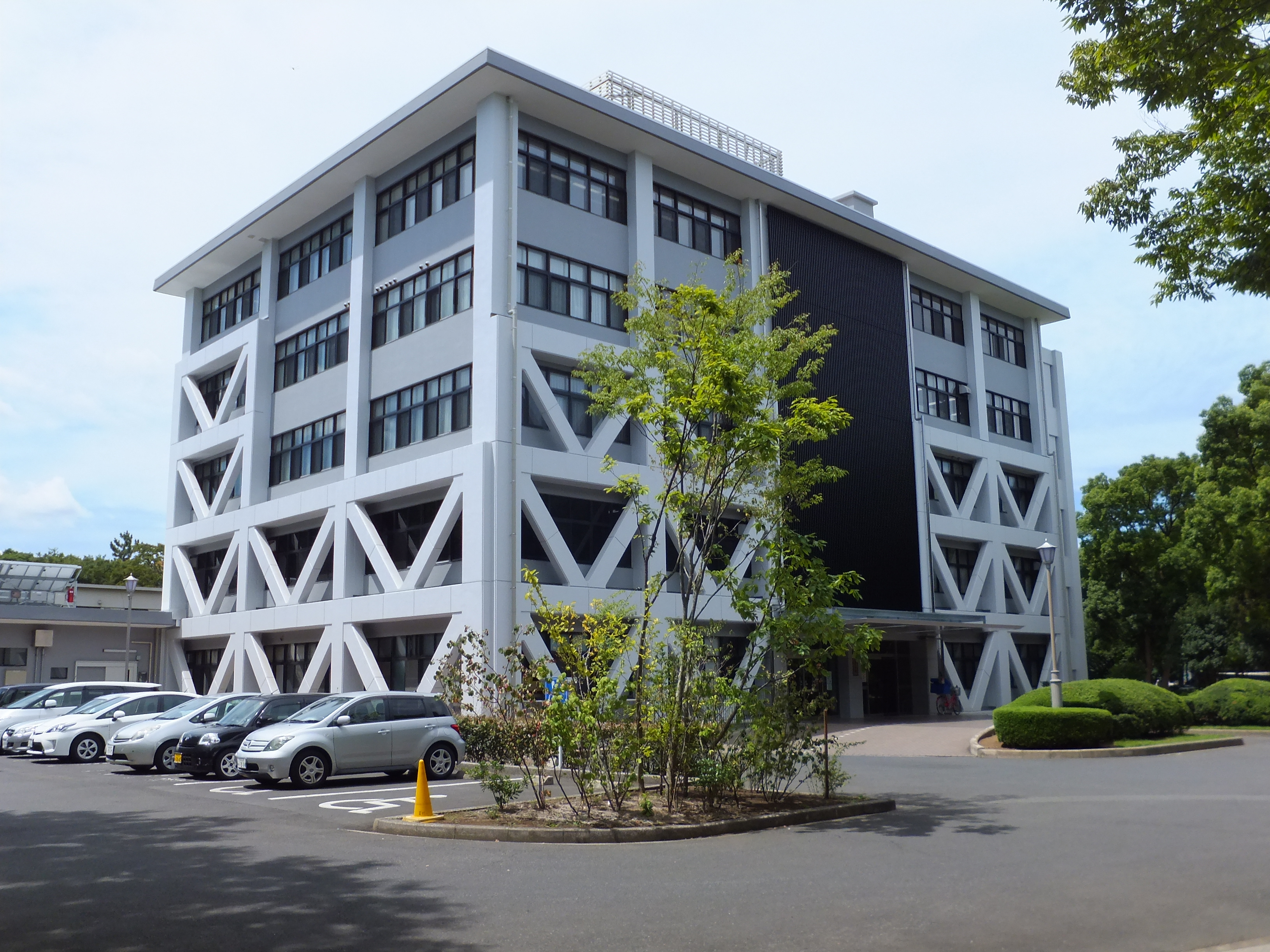 Administration Bureau of Chiba University, in Chiba, Chiba, Japan